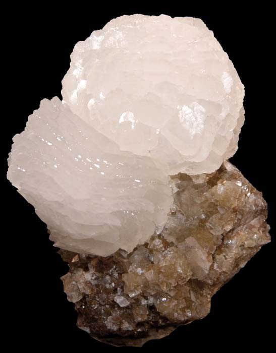 Calcite, Siderite Locality: Turt Mine (Ghezuri Mine), Turt, Satu Mare, Maramures County, Romania (Locality at ) It is sad to hear that the supply of these gorgeous calcite flowers from Eastern Europe is drying up. Our contact who buys over there told us that these great Romanian calcites are just about finished. These have to be amongst the prettiest calcites around. This one has two intergrown rosettes, stunning with lustre and sparkle, on a carefully trimmed matrix accented with siderite crystals. Perfect size and form, gorgeous aesthetics, just a really beautiful mineral specimen. 6.5 x 5 x 3.75 cm